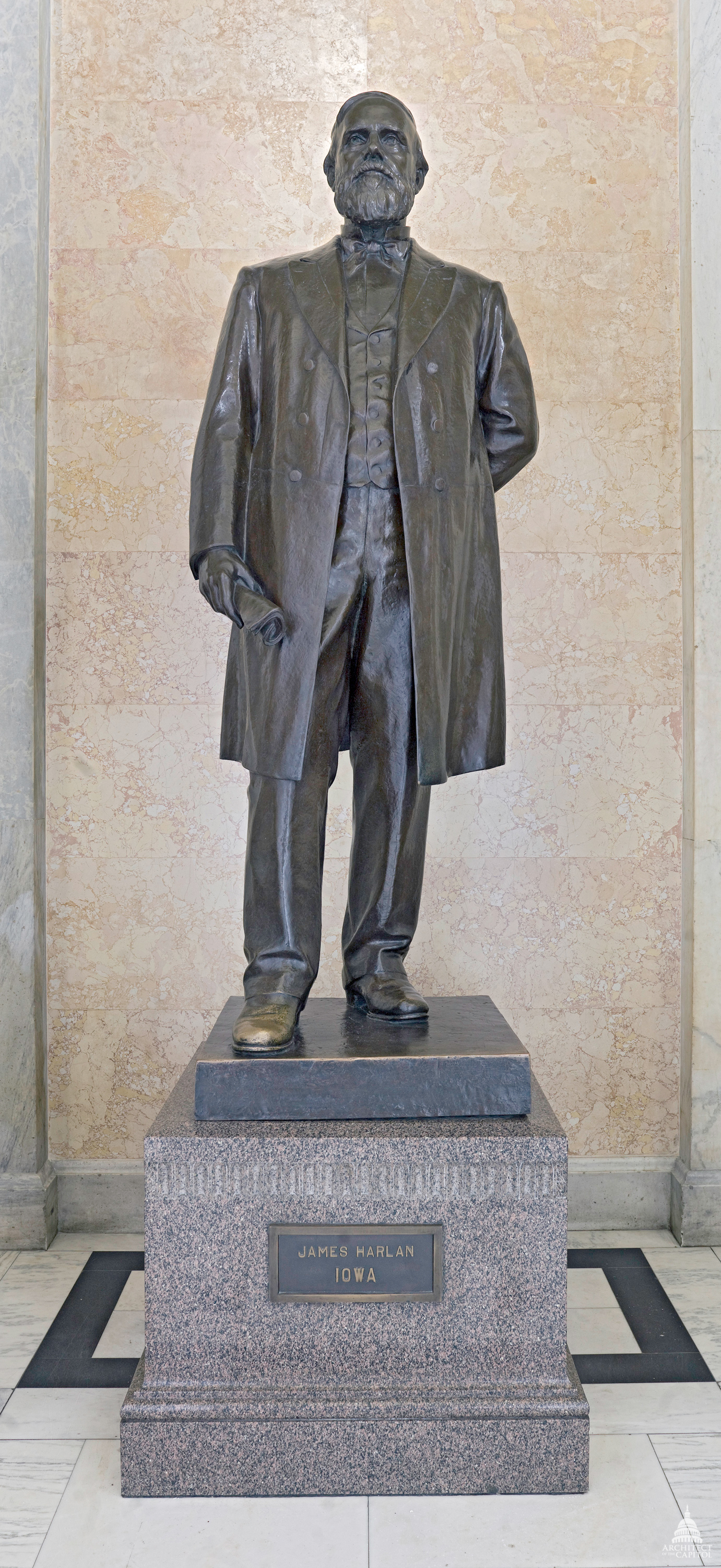 James Harlan (1820-1899) Iowa Bronze by Nellie V. Walker Given in 1910 Hall of Columns U.S. Capitol This official Architect of the Capitol photograph is being made available for educational, scholarly, news or personal purposes (not advertising or any other commercial use). When any of these images is used the photographic credit line should read “Architect of the Capitol.” These images may not be used in any way that would imply endorsement by the Architect of the Capitol or the United States Congress of a product, service or point of view. For more information visit